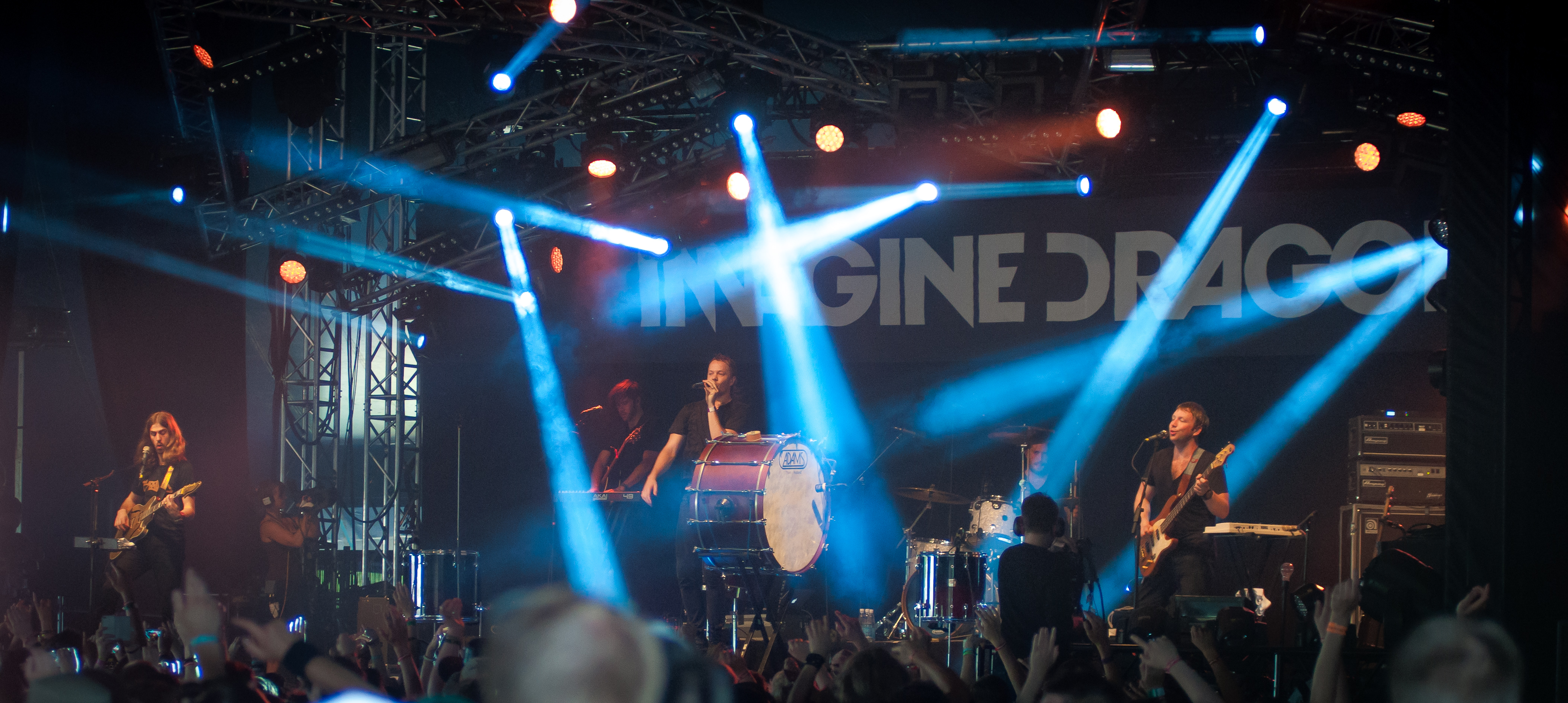 American alternative rock band Imagine Dragons performing at the 2013 Ilosaarirock festival in Joensuu, Finland.